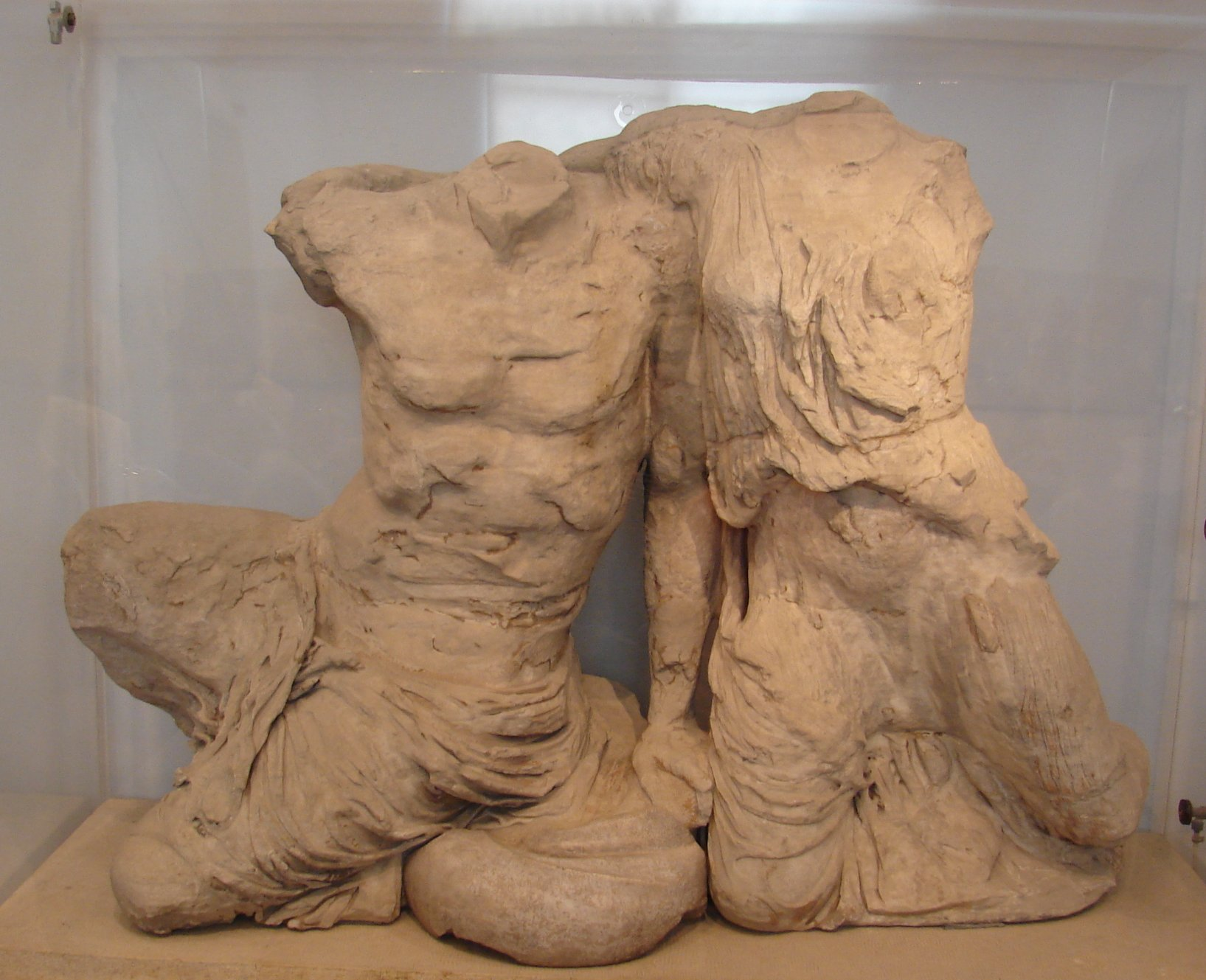 Detail of the Athens' frontone of the Parthenon. Figures B and C, on the left of the West pediment, identified as Kecrops and Pandrosos).